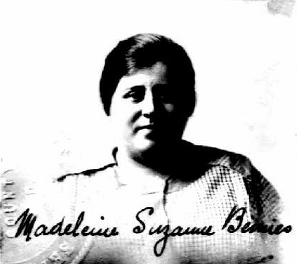 Photograph of Madeleine Suzanne Bemies, wife of Charles Bemies